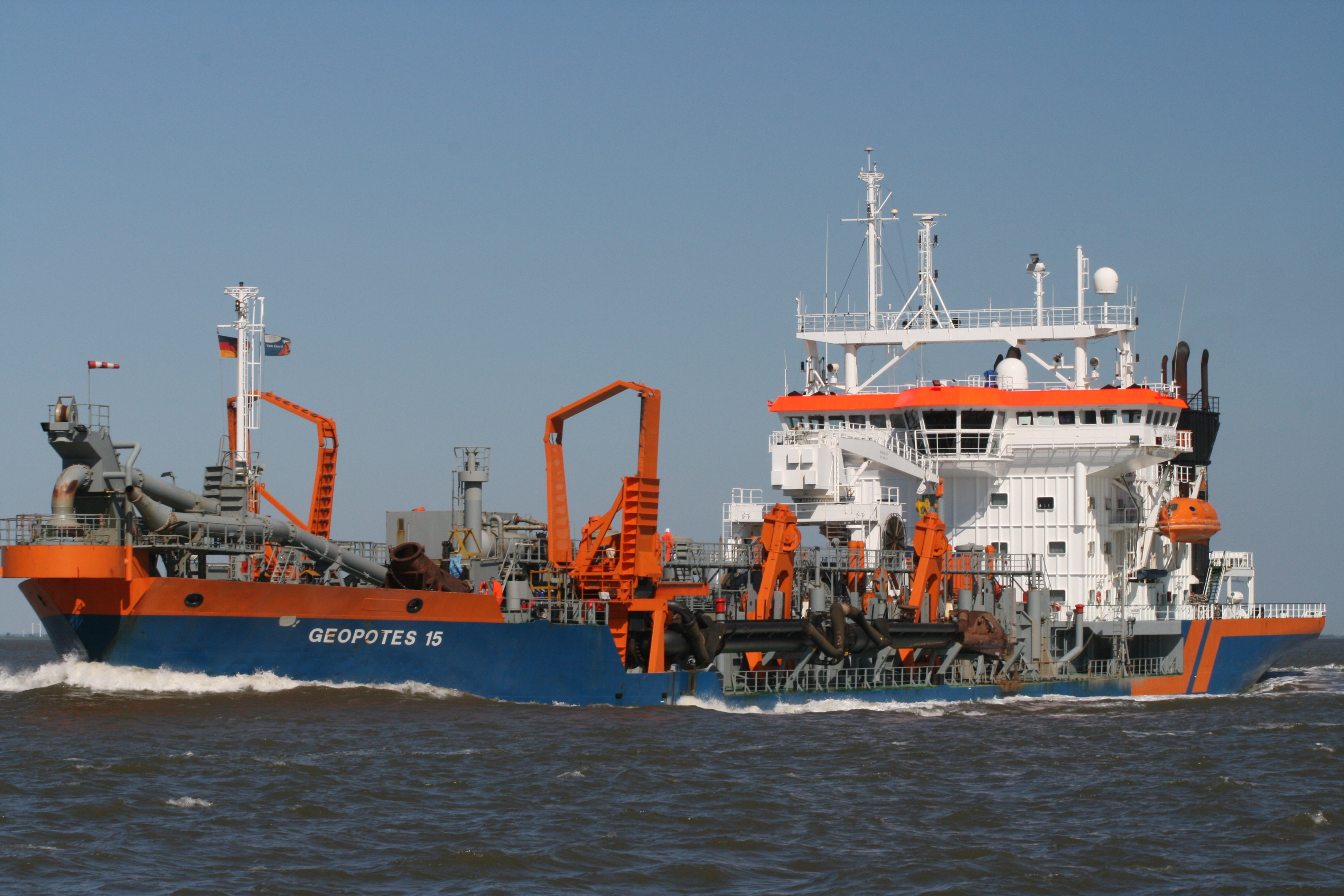 Name: Geopotes 15 IMO number: 8414790 Type: Trailing suction hopper dredger Owner: Van Oord Built by: Verolme Shipyard, Heusden Year: 1985 Total installed power: 12.000 kW Hopper capacity: 9.960 m3 Loading capacity: 15.000 ton Length o.a.: 133,5 m Length b.p.: 126,0 m Breadth: 23,6 m Draught: 9,0 m Speed: 15,0 kn Suction pipes: 2 x 1.000 mm Dredging depth: 54,0 m